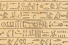 The cartouche of king Alara of Nubia, uncle of pharaoh Piye, as appears on the Stela of Nastasen (front, row 8 and 16). Drawing by Richard Lepsius. [ref:Dows Dunham and M. F. Laming Macadam, Names and Relationships of the Royal Family of Napata, The Journal of Egyptian Archaeology, Vol. 35 (Dec., 1949), pp. 139-149]